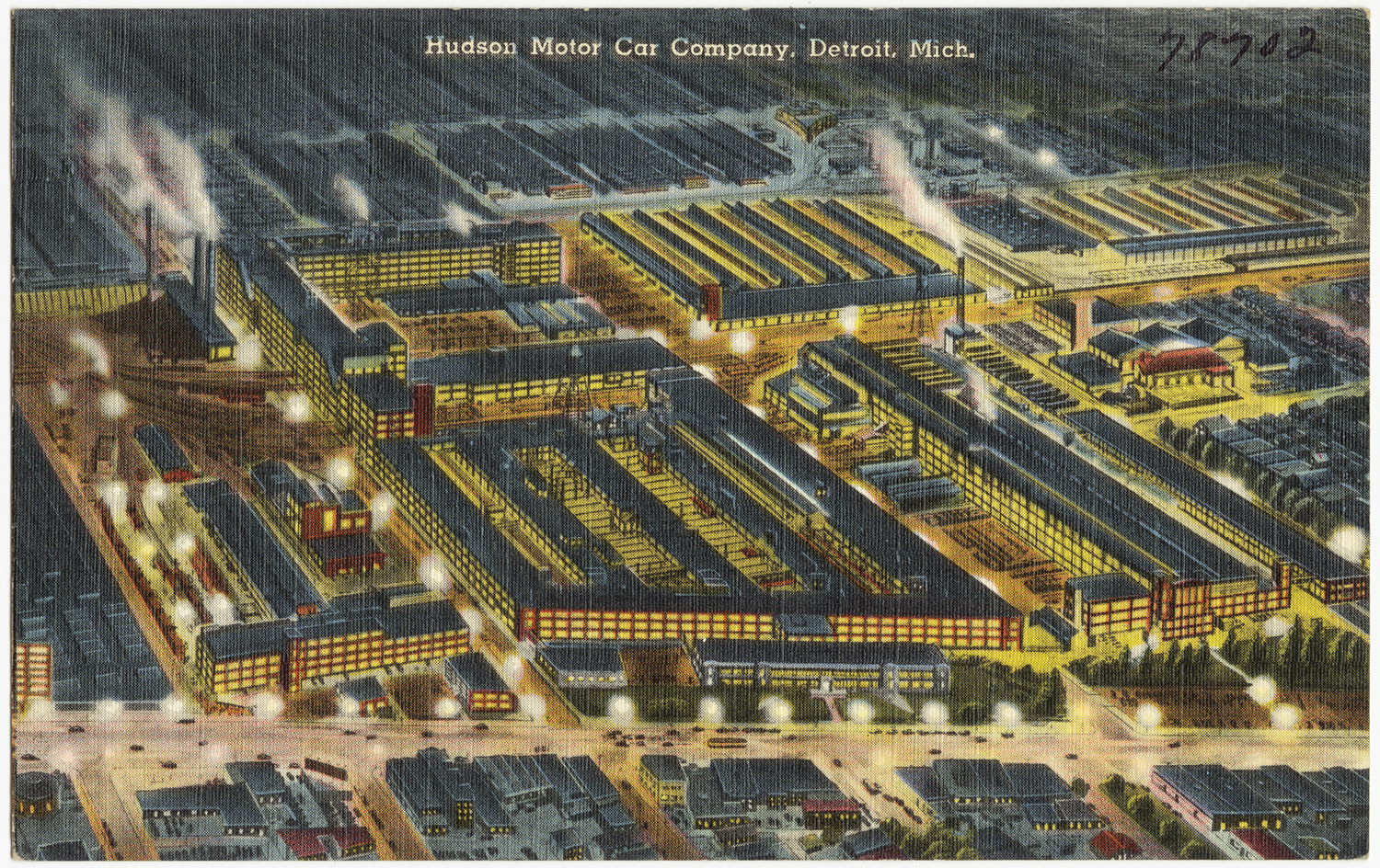 File name: 06_10_014706 Title: Hudson Motor Car Company, Detroit, Mich. Date issued: 1930 - 1945 (approximate) Physical description: 1 print (postcard) : linen texture, color ; 3 1/2 x 5 1/2 in. Genre: Postcards Subject: Industrial facilities Notes: Title from item. Collection: The Tichnor Brothers Collection Location: Boston Public Library, Print Department Rights: No known restrictions Location of factory is Jefferson and Connor in Detroit, MI